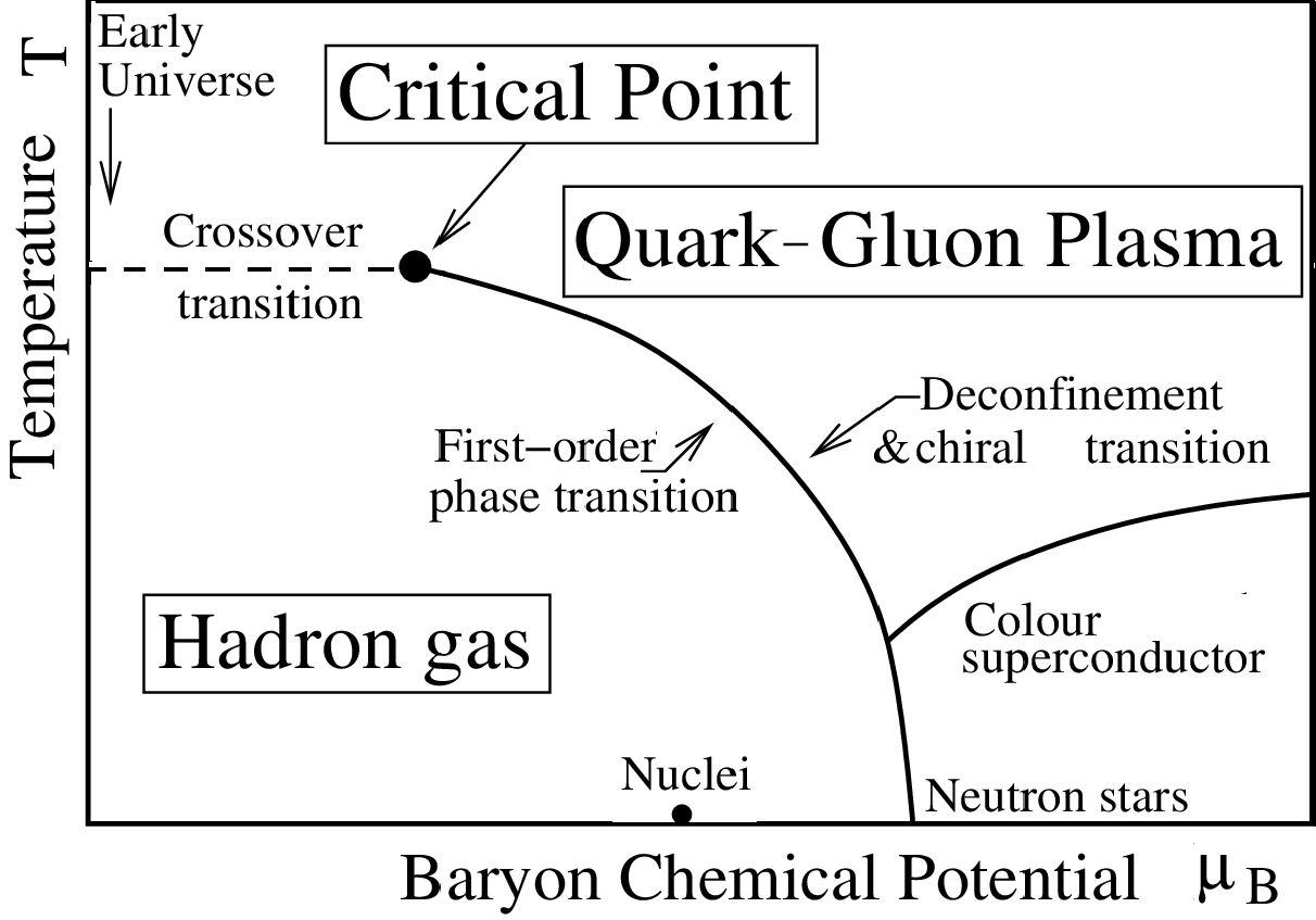 Conjectured phase diagram of QCD as a function of quark chemical potential μ and temperature T. Quark–gluon plasma is in the high-density, high-temperature part of the diagram.